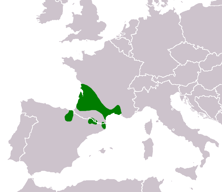 Pelophylax grafi range map.